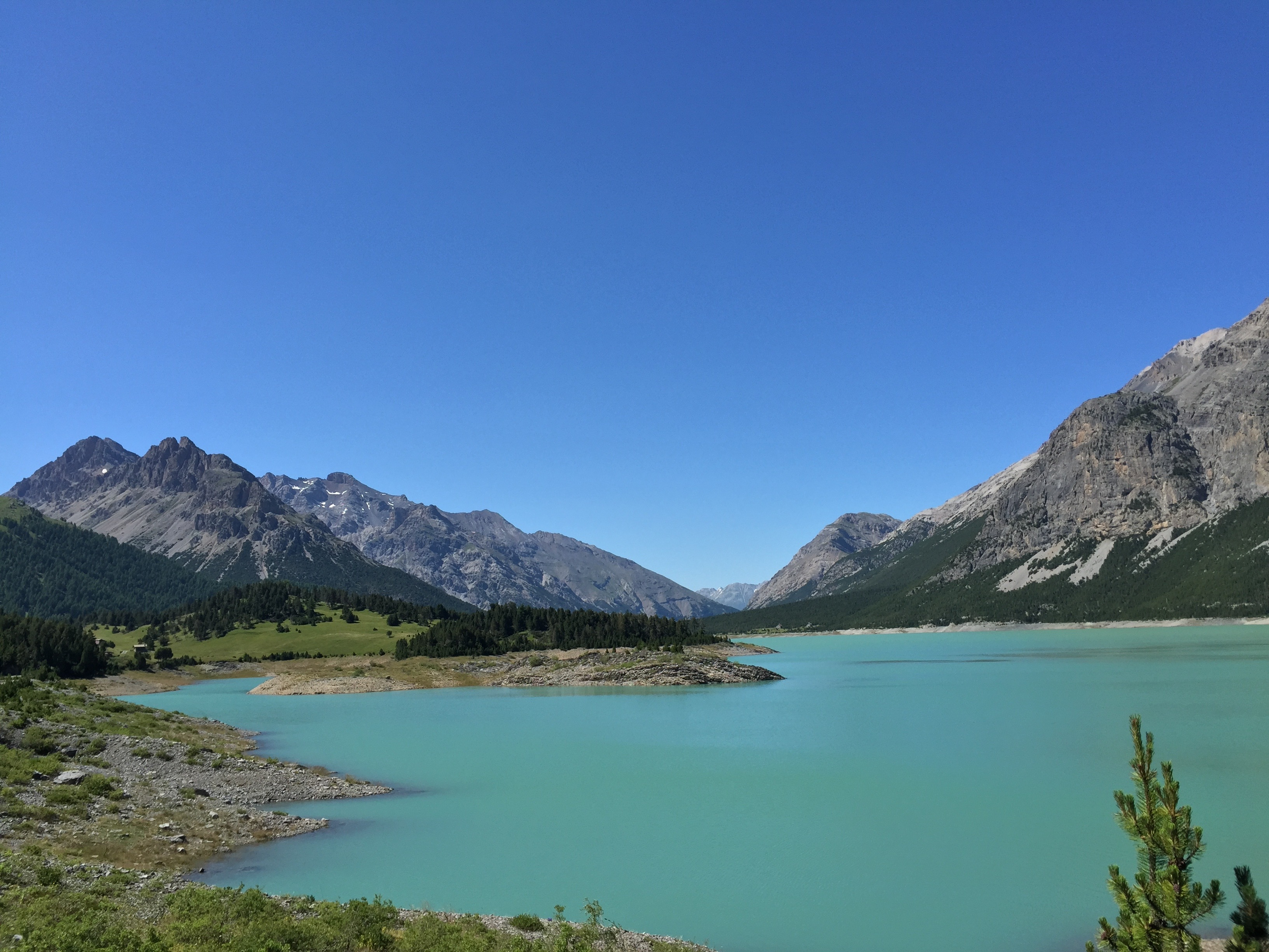 Partial view of Lago di San Giacomo from south-east side